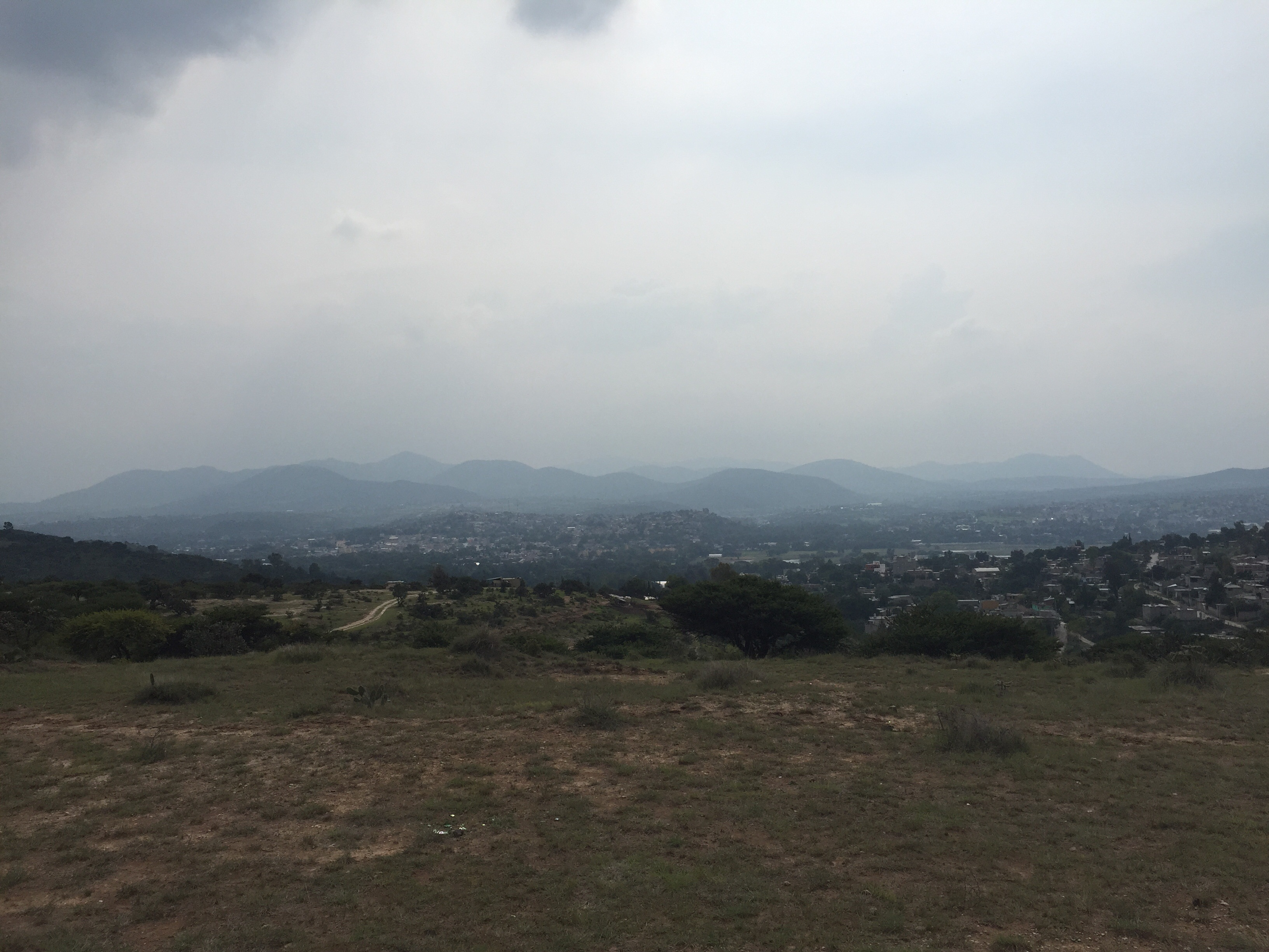 View of Tepeji from the east